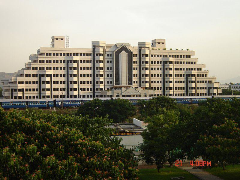 The symbolic academic structure of the Vellore Institute of Technology(VIT).